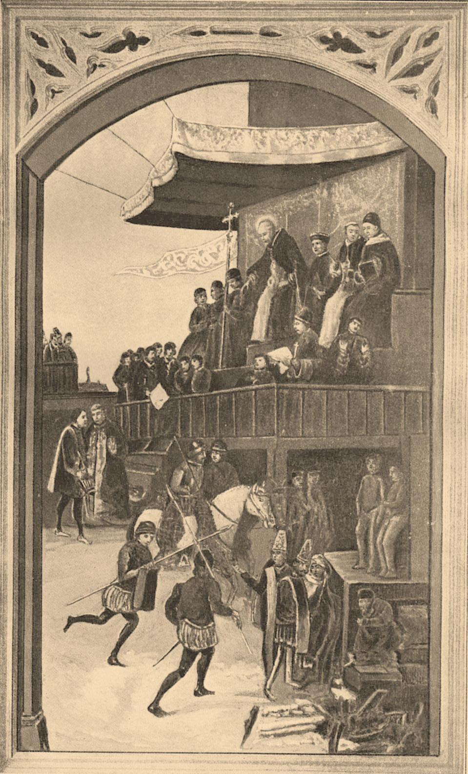 Illustration from Brockhaus and Efron Jewish Encyclopedia (1906—1913)